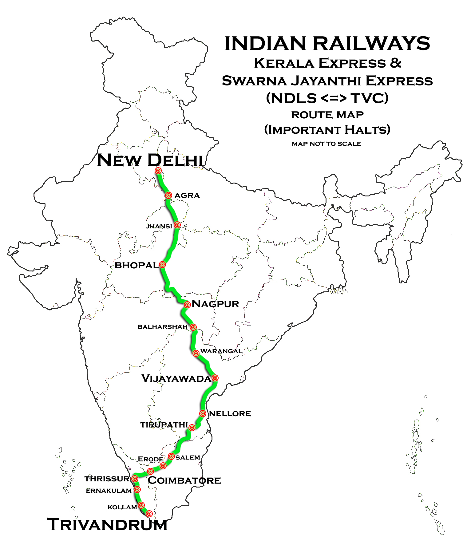 Kerala Express and Swarnajayanthi Express (Trivandrum - New Delhi) Route map